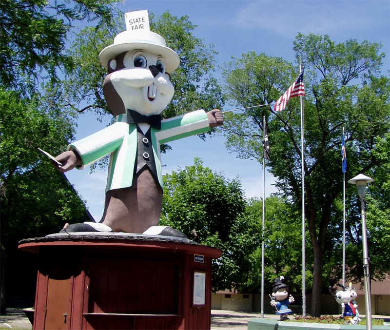 The Minnesota State Fair mascot, Fairborne, on top of an information stand on Cosgrove Street, St. Paul